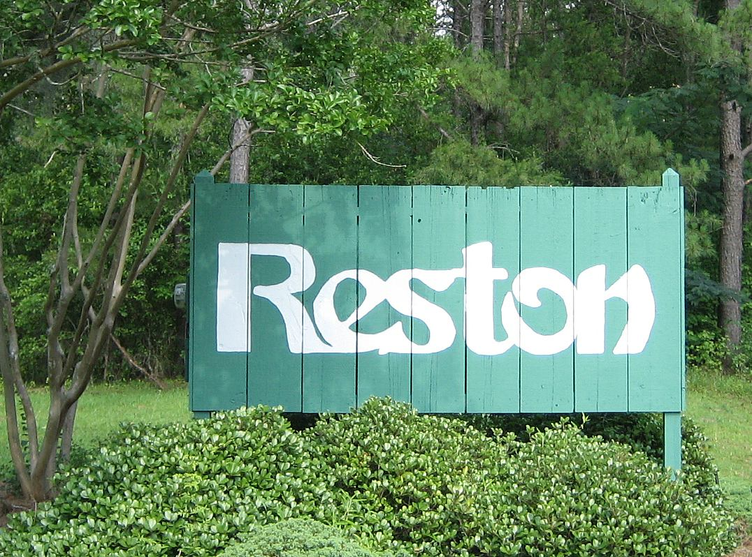 Entrance sign of Reston, Florida